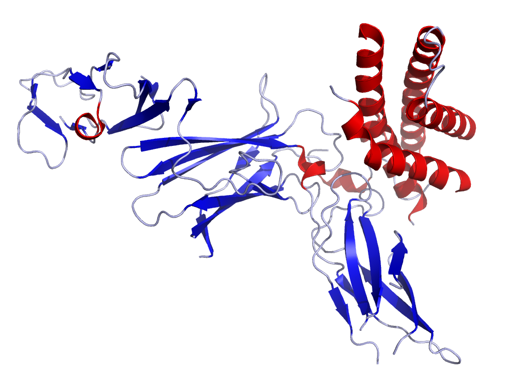 Crystal structure of IL-12 as published in the Protein Data Bank (PDB: 1F45)